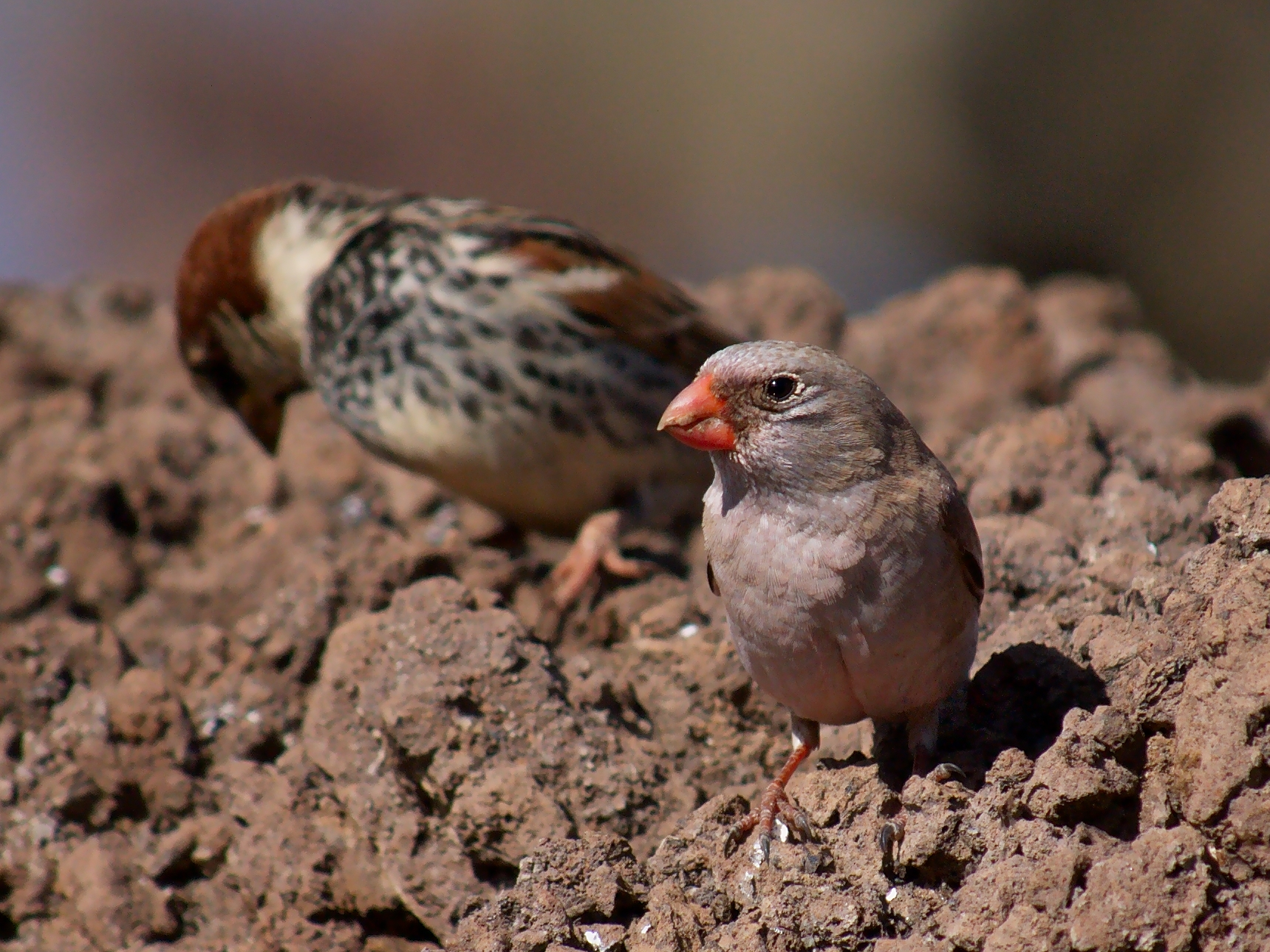 A Trumpeter Finch (Rhodopechys githaginea) at Guatiza, Lanzarote, Canary Islands, with a male Spanish Sparrow (Passer hispaniolensis) in the background